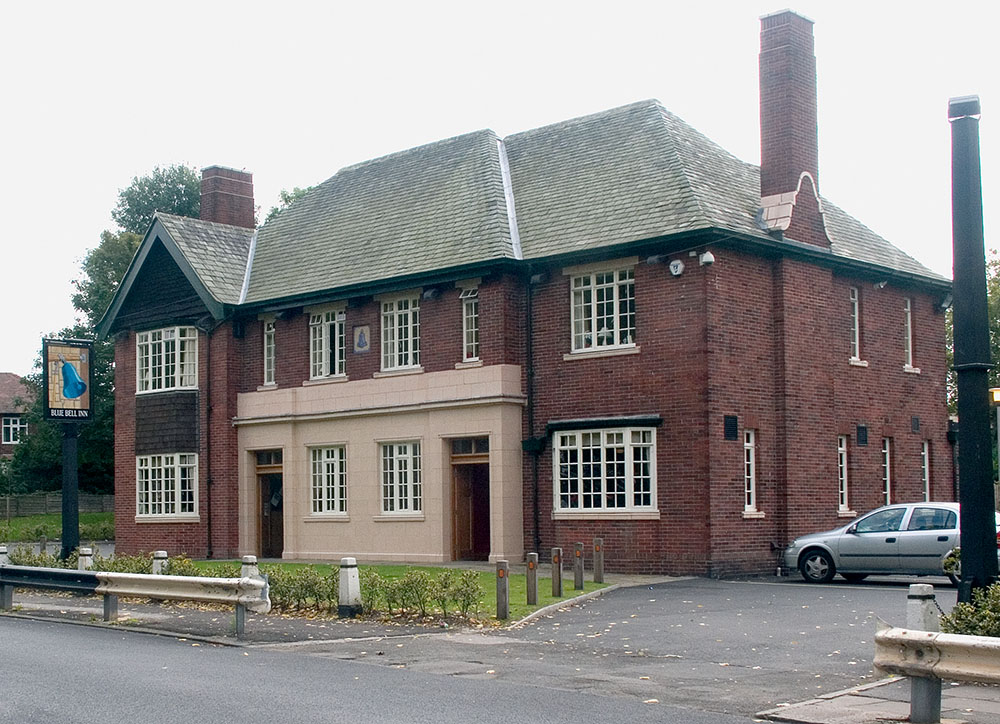 An image of the Blue Bell Inn on Barlow Road, Levenshulme, Manchester. Taken 28 September 2007.